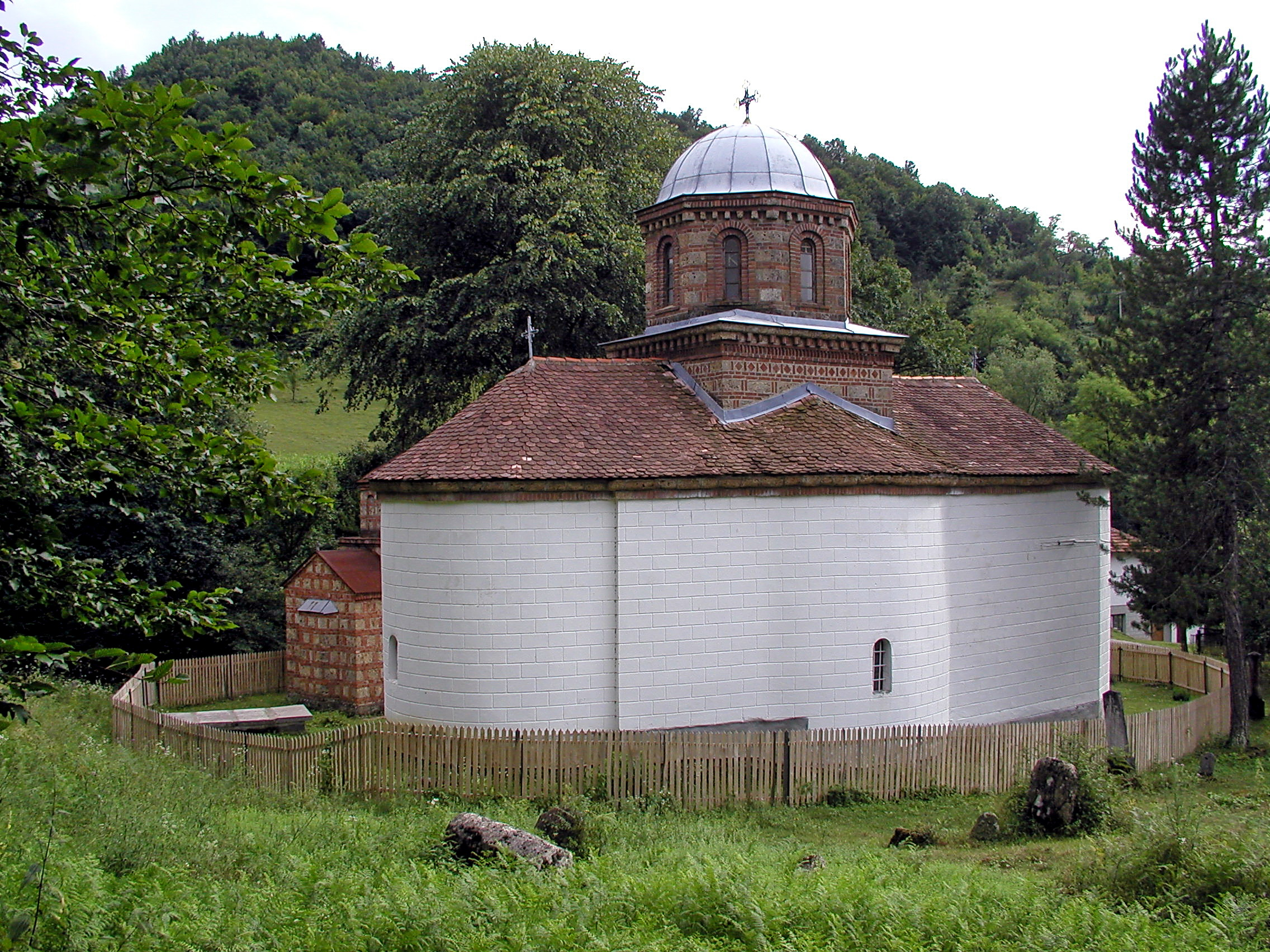 Church of Saint Archangel Michael, known under the name Gračanica in Tubravić, Valjevo